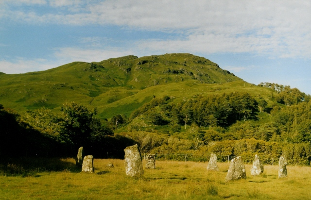 Stone Circle at Lochbuie The only circle on Mull. Viewed from (approx) southwest, looking towards Creach Bheinn Bheag.